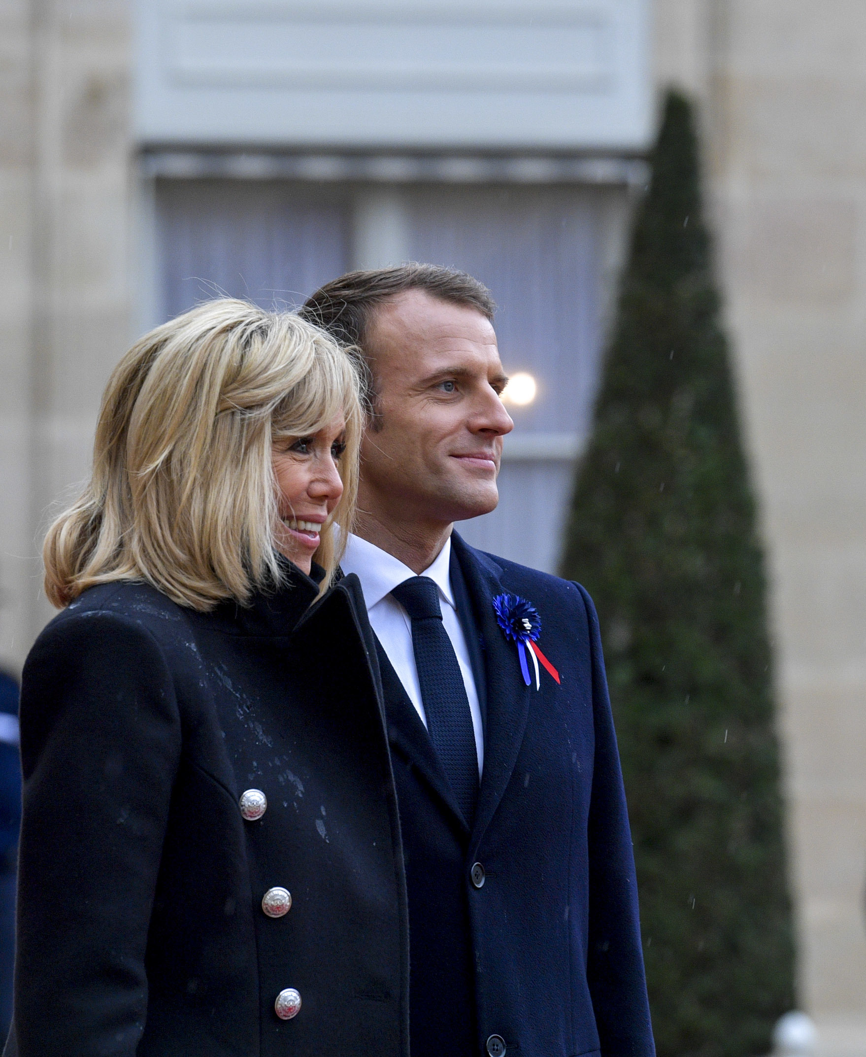 Brigitte Macron and Emmanuel Macron